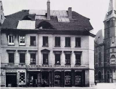 Biala Synagogue in Wrocław